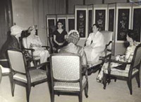 Kong Deok-kui. the Wife of Yun Bo-seon, 4th President of South Korea